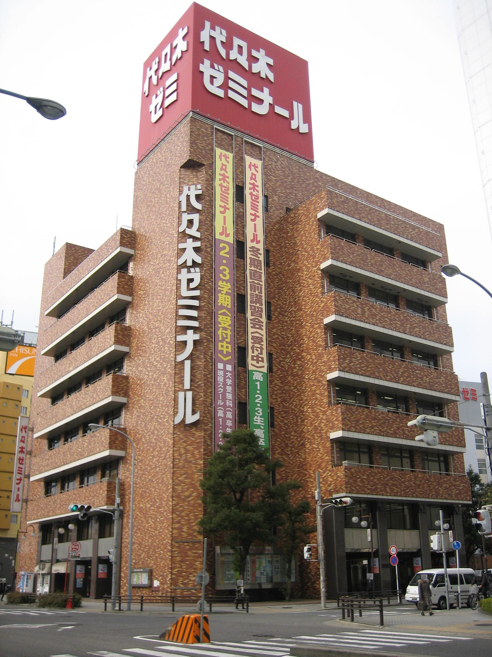 Local office of the Yoyogi seminar and Kawai Juku, located in Nagoya, Aichi, Japan